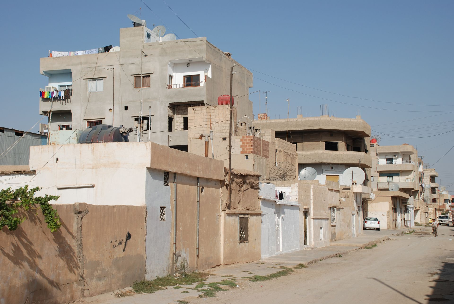 Qamishli, Syria, new houses east of river